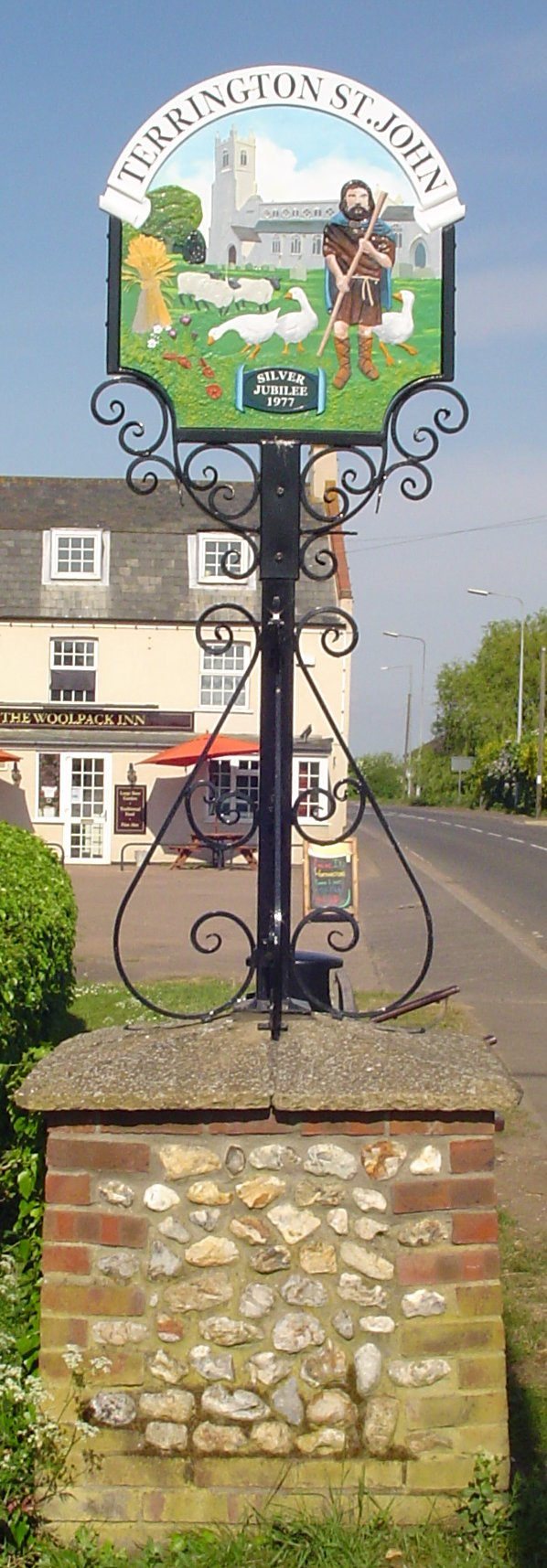 Signpost in Terrington St. John